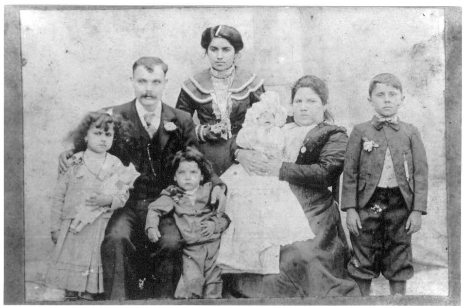 Jacobo Bibas with his wife Mesodi Tobelem and their children Simi, Estrella, León, Esther and Jaime, from Misiones Province, circa 1900.